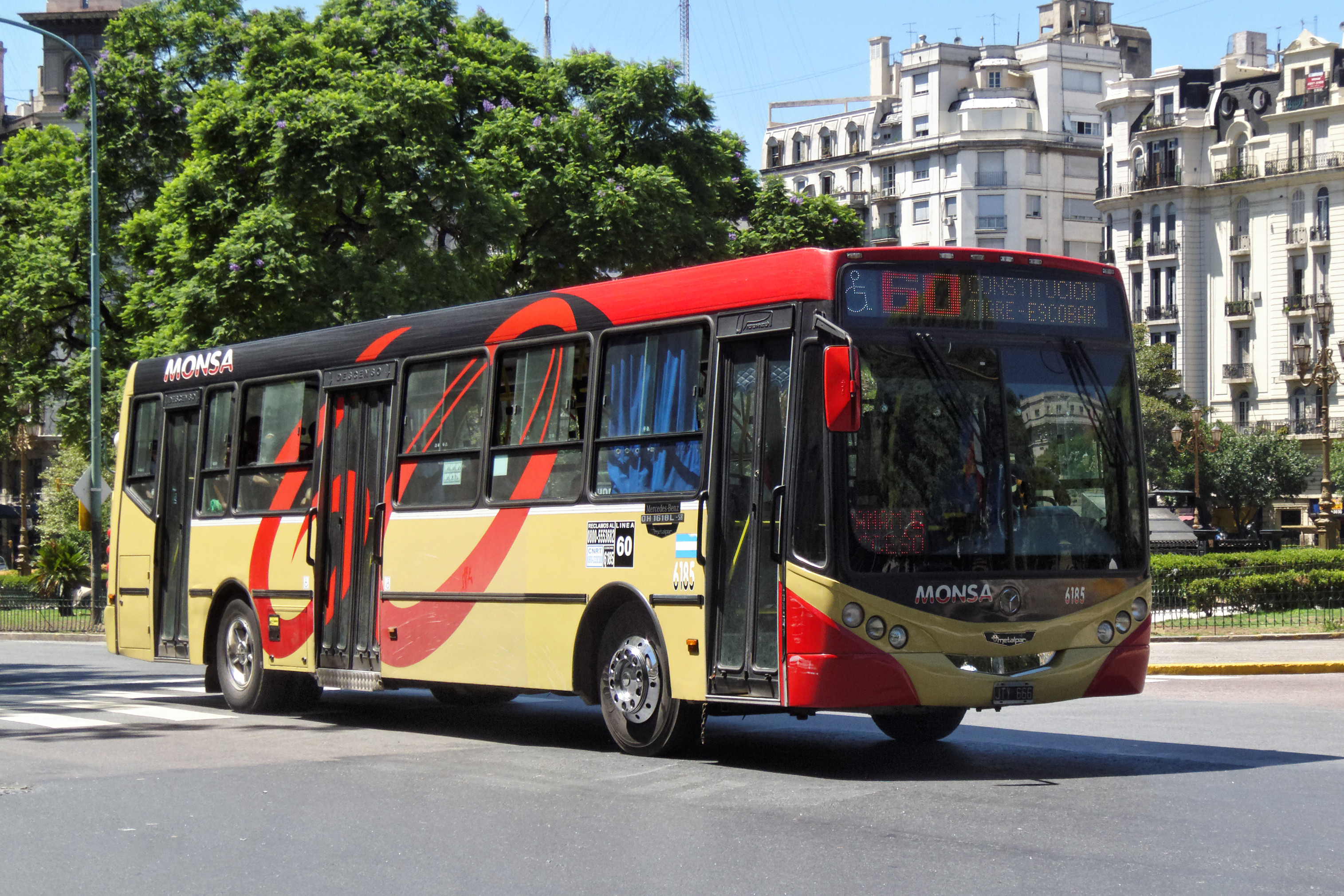 Metalpar Iguazú II bus (reg. JTY 666, #6185), with Mercedes-Benz OH 1618 L-SB chassis in Buenos Aires, Argentina. Colectivo, line 60, M.O.N.S.A. (NU.D.O. S.A.-Azul S.A.T.A.-M.O.T.S.A.) operator.